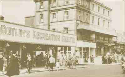 Image of Butlin's Recreation shelter in Bognor Regis (late 1930's)